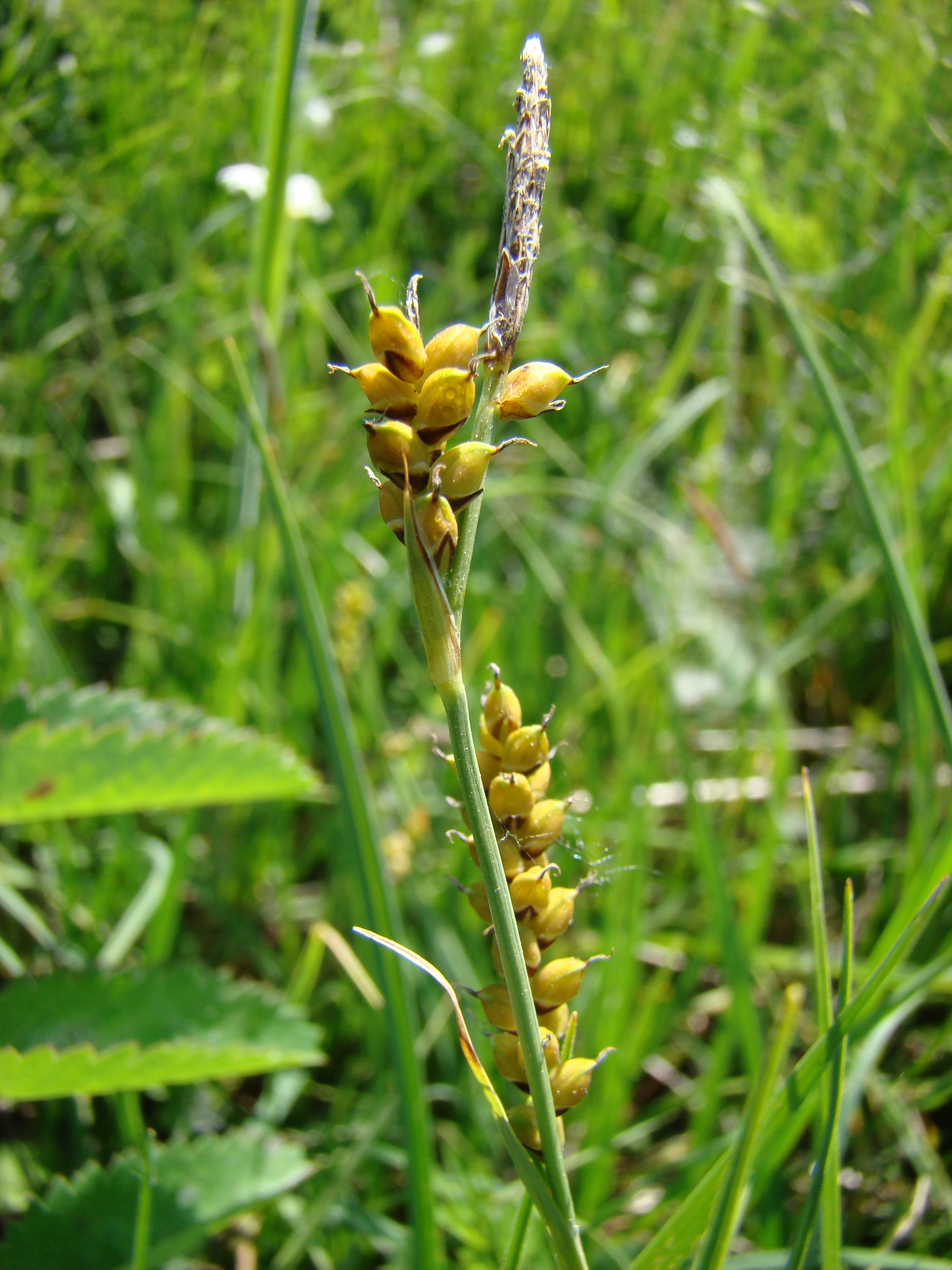 Carex panicea (Poland - Lower Silesia)